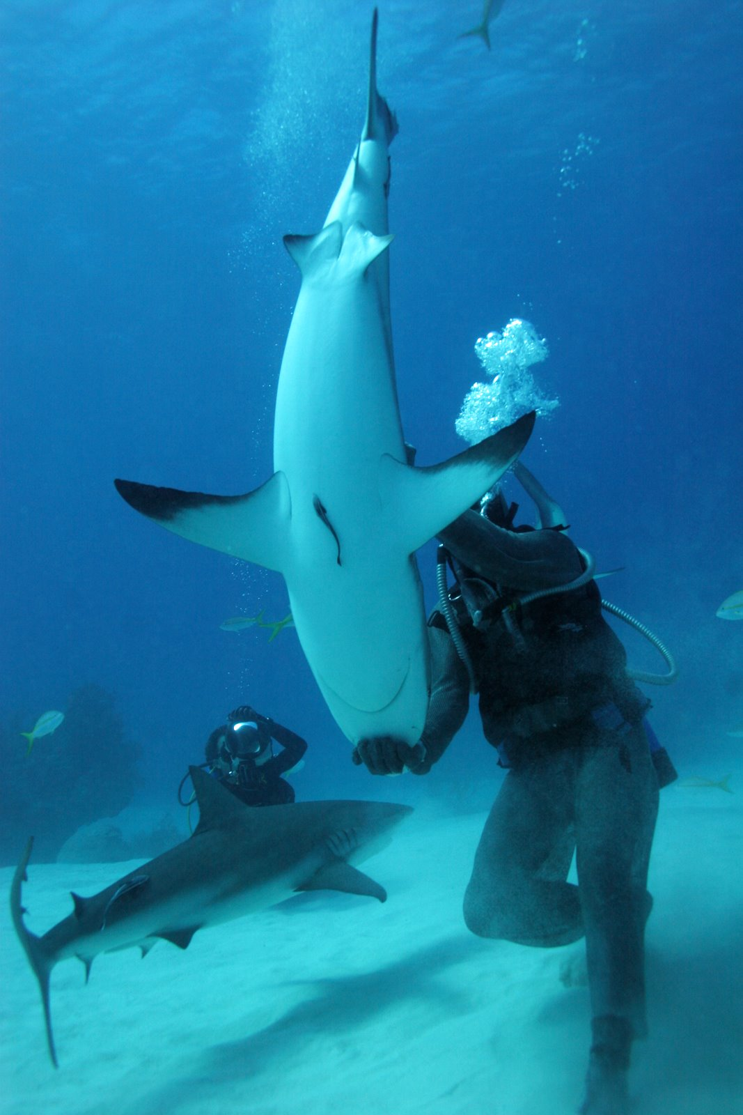 Mike Rutzen pits a shark into Tonic Immobility